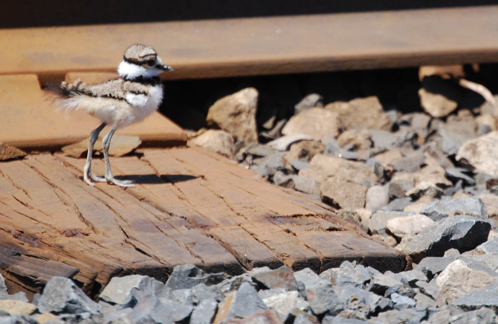 There were a handful of these little guys. I imagine just a day or two old. So small and fluffy. Just look at those little wings and chicken fuzz. And big, big feet. North of St. Johns, Portland, OR.